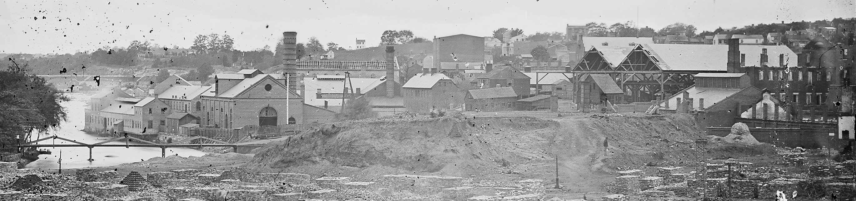 Photograph of the Tredegar Iron Works, shortly after the Evacuation Fire of 1865; despite the original caption of the image, the works themselves survived largely unscathed.